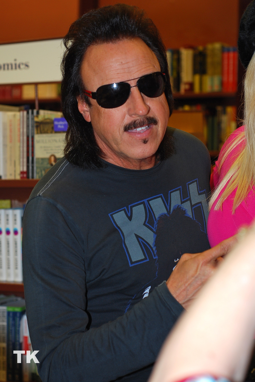 Pro wrestling manager Jimmy Hart at a Chapters signing in Toronto